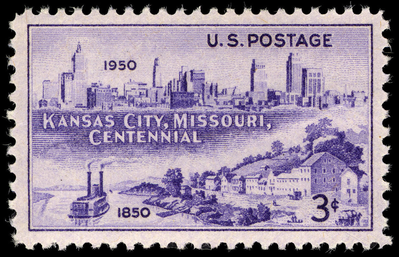 Kansas City, Missouri, Centenary - 1850-1950 - Issue 3-cent 1950 U.S. stamp.